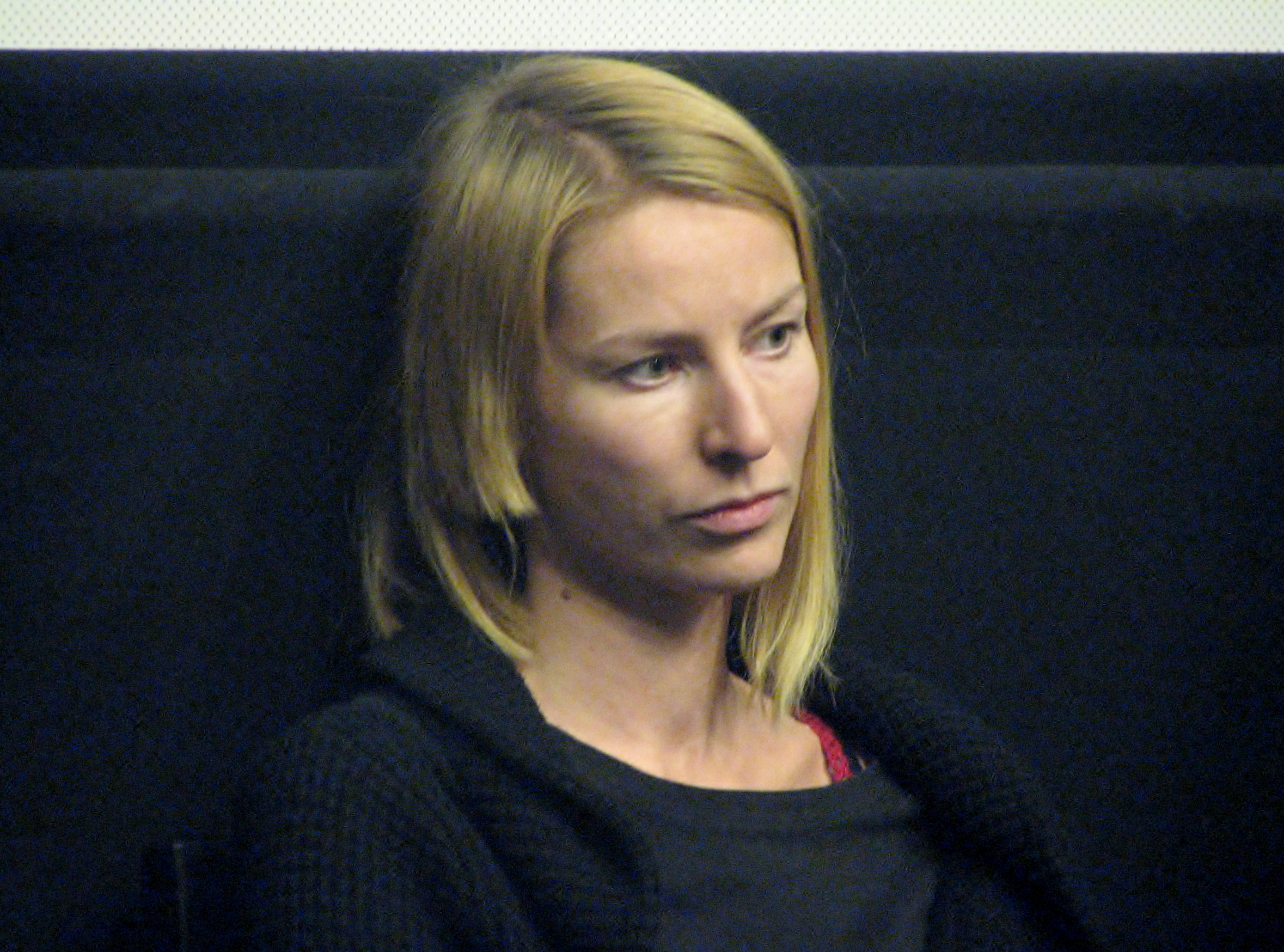 Marianne Kõrver performing during 16th Tallinn Black Nights Film Festival